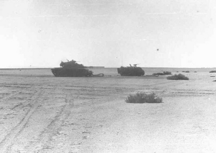 An IDF M60 tank and M113 APC lie destroyed near the Lexicon-Tirtur Junction